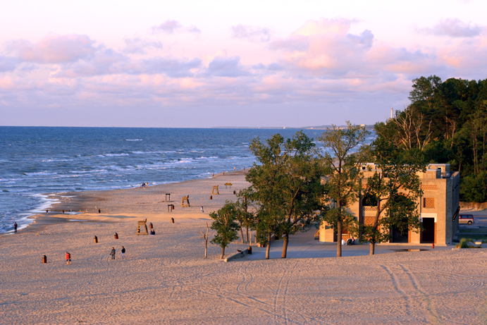 This photo was taken in June 2005 and is of the Indiana Dunes Bathhouse and Pavilion in Chesterton, IN along Lake Michigan on the Indiana Dunes National Lakeshore. The building was built around 1930 and is still used today. It currently houses a men's and women's locker room, restrooms, concessions area and souvenir shop.